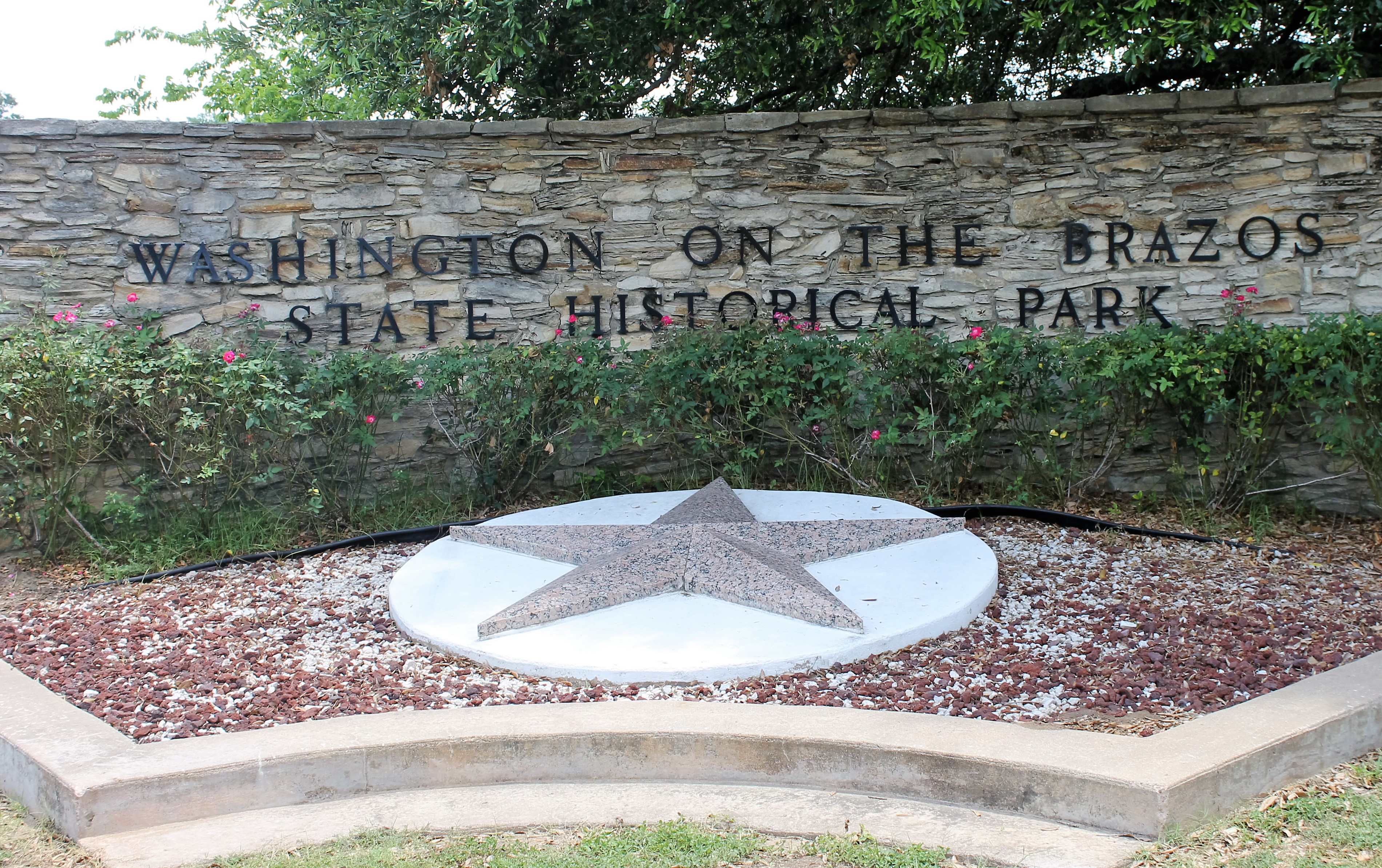 Entrnace sign, Washington on the Brazos State Historical Park